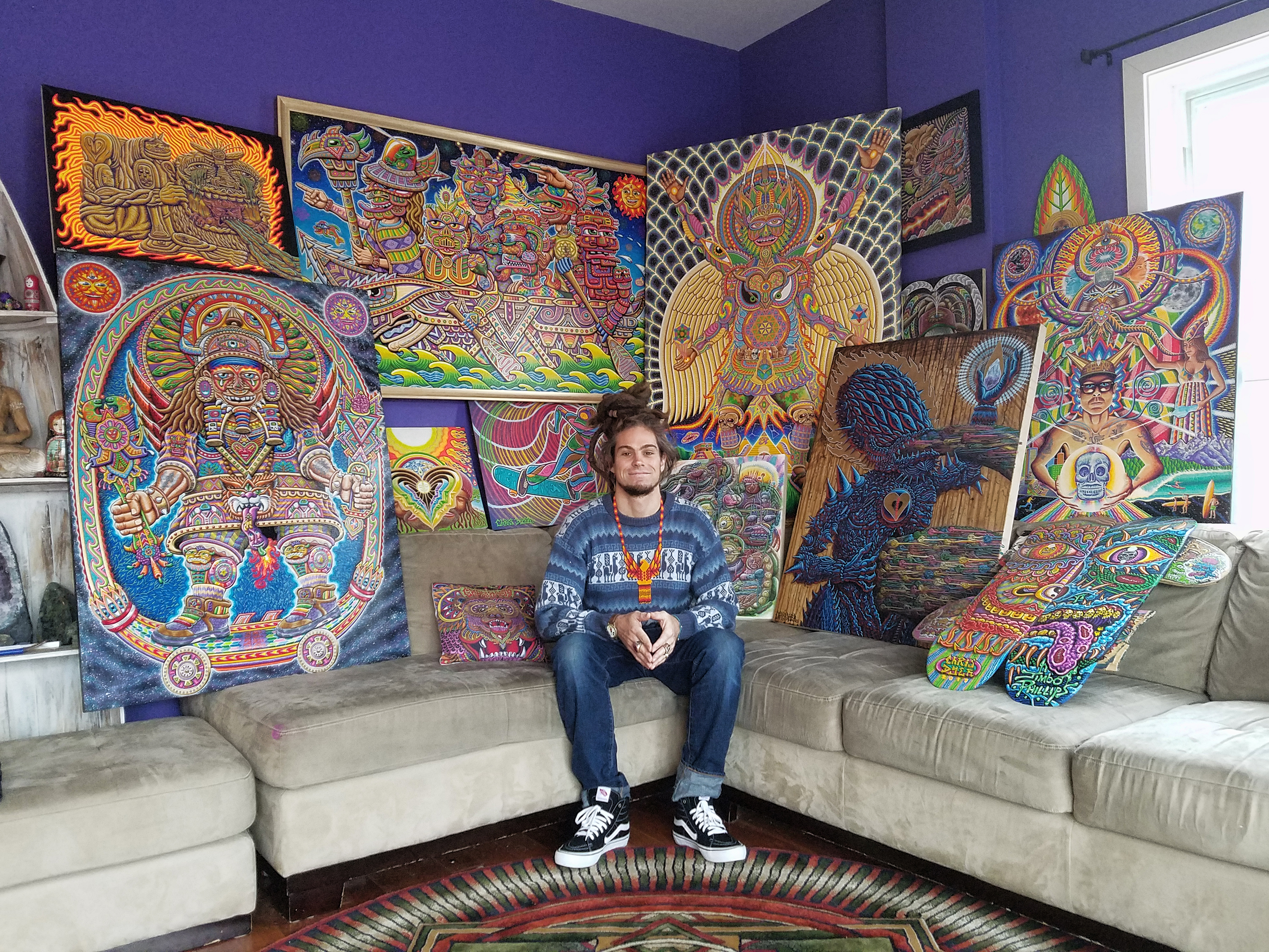 Chris Dyer with many of his visionary art canvas paintings at his home in Montreal, Canada, 2018.